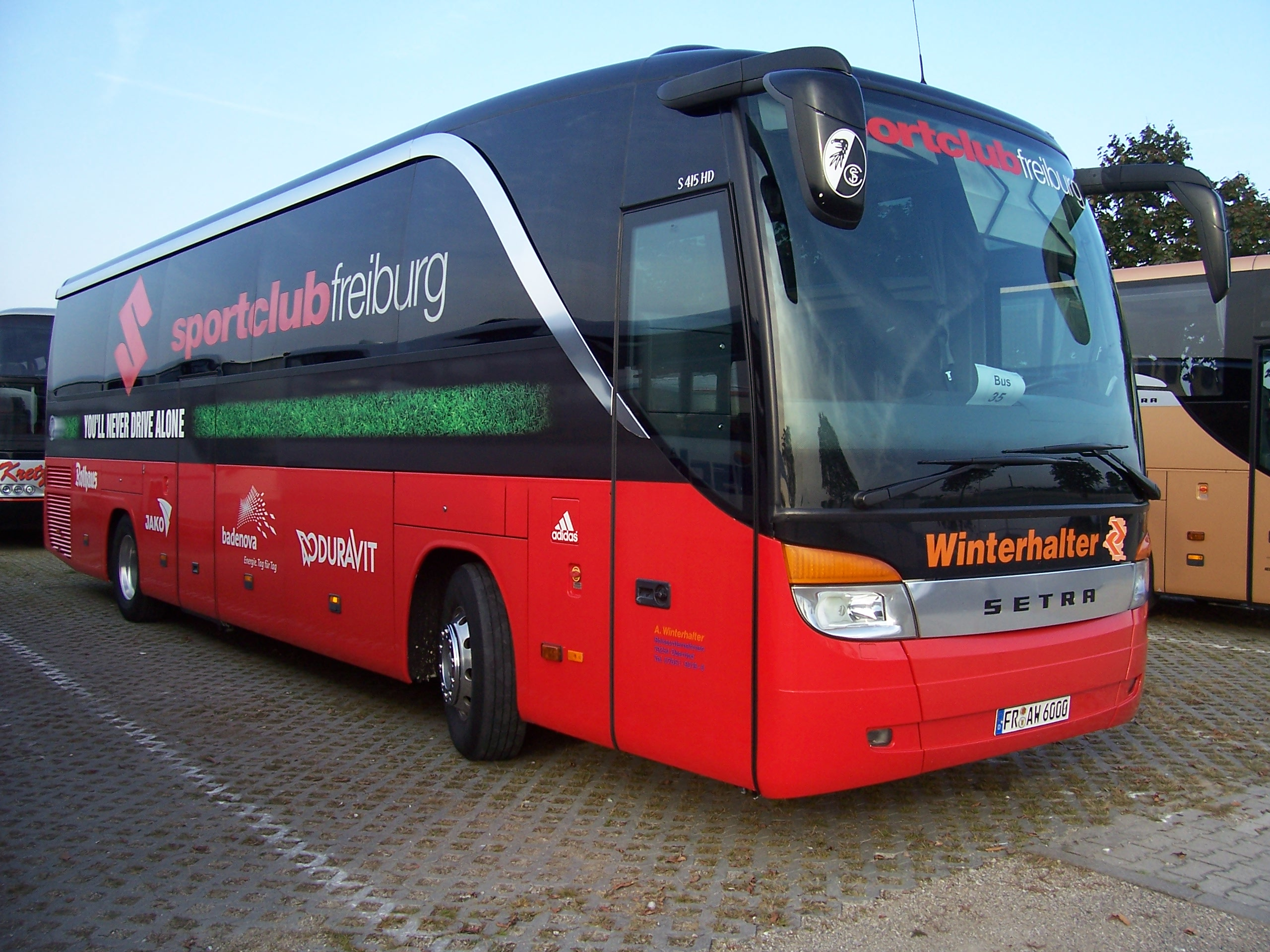 Setra S 415 HD coach (reg. FR-AW 6000) in Mannheim, Germany.